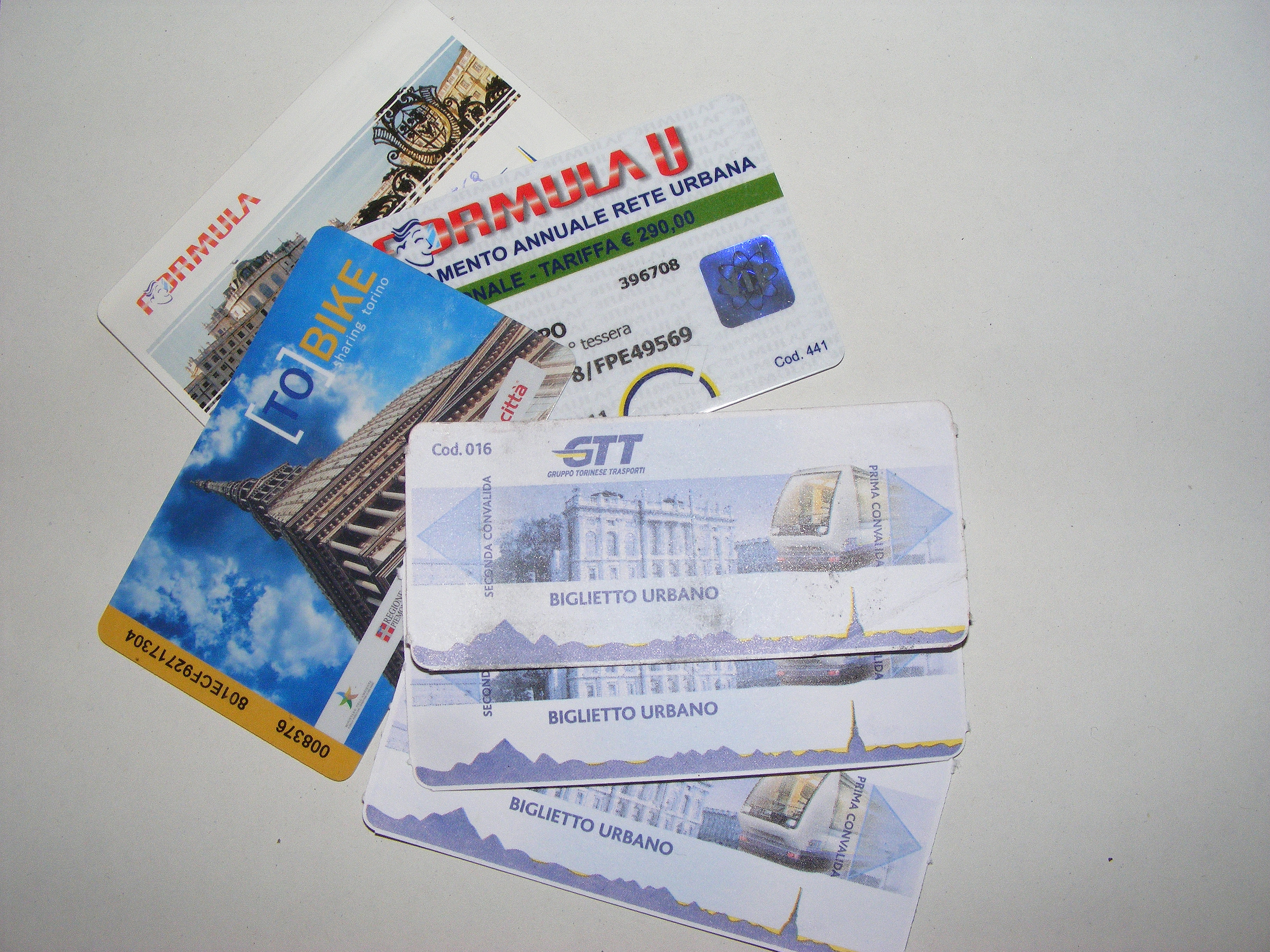 Pubblic transport in Turin: different kind of tickets